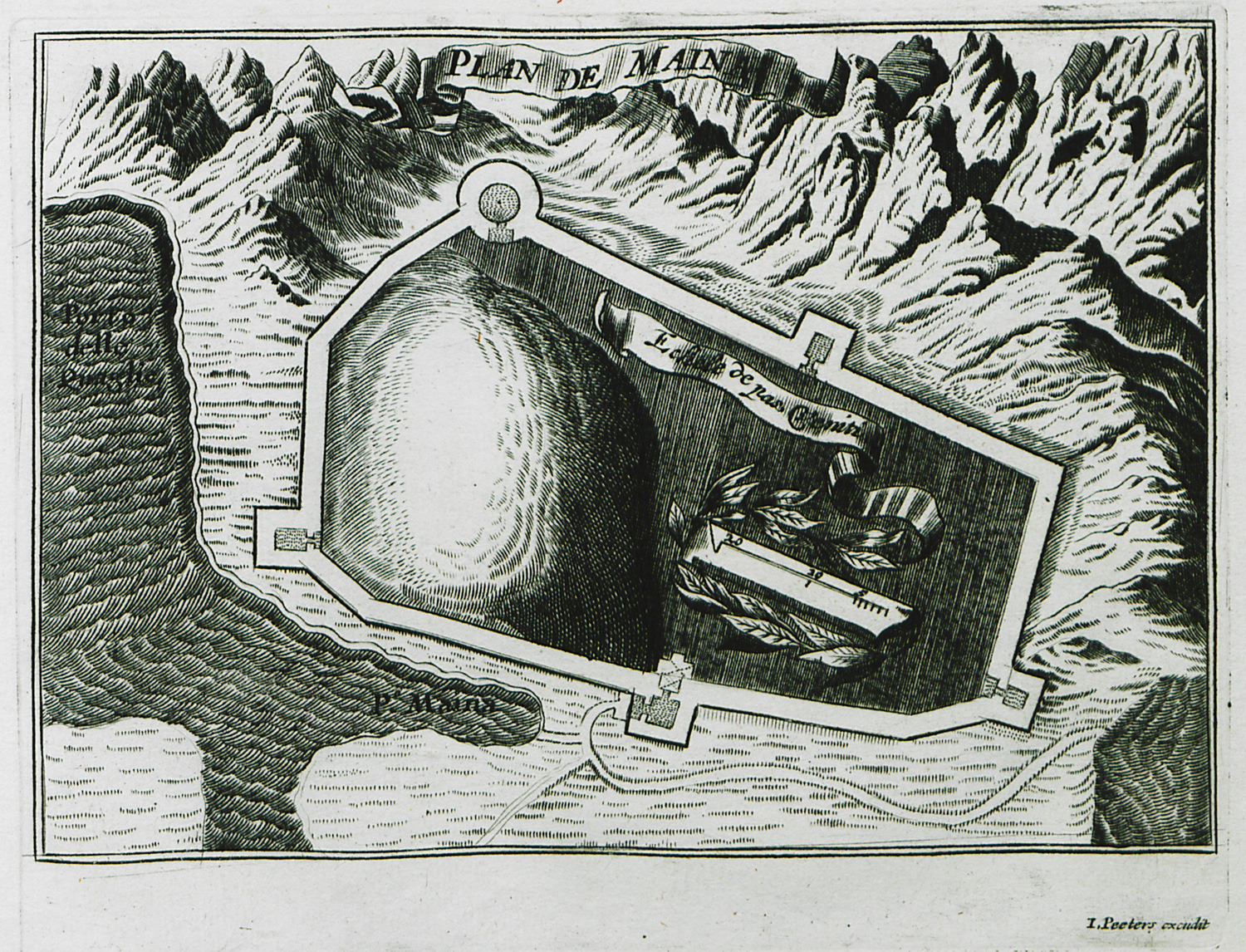 Castle of Porto Kagio. Jacob Peeters. Description des principales villes, havres et isles du golfe de Venise du coté oriental. Comme aussi des villes et forteresses de la Moree, et quelques places de la Grèce, Antwerp, Sur le marché des vieux Souliers, 1690.